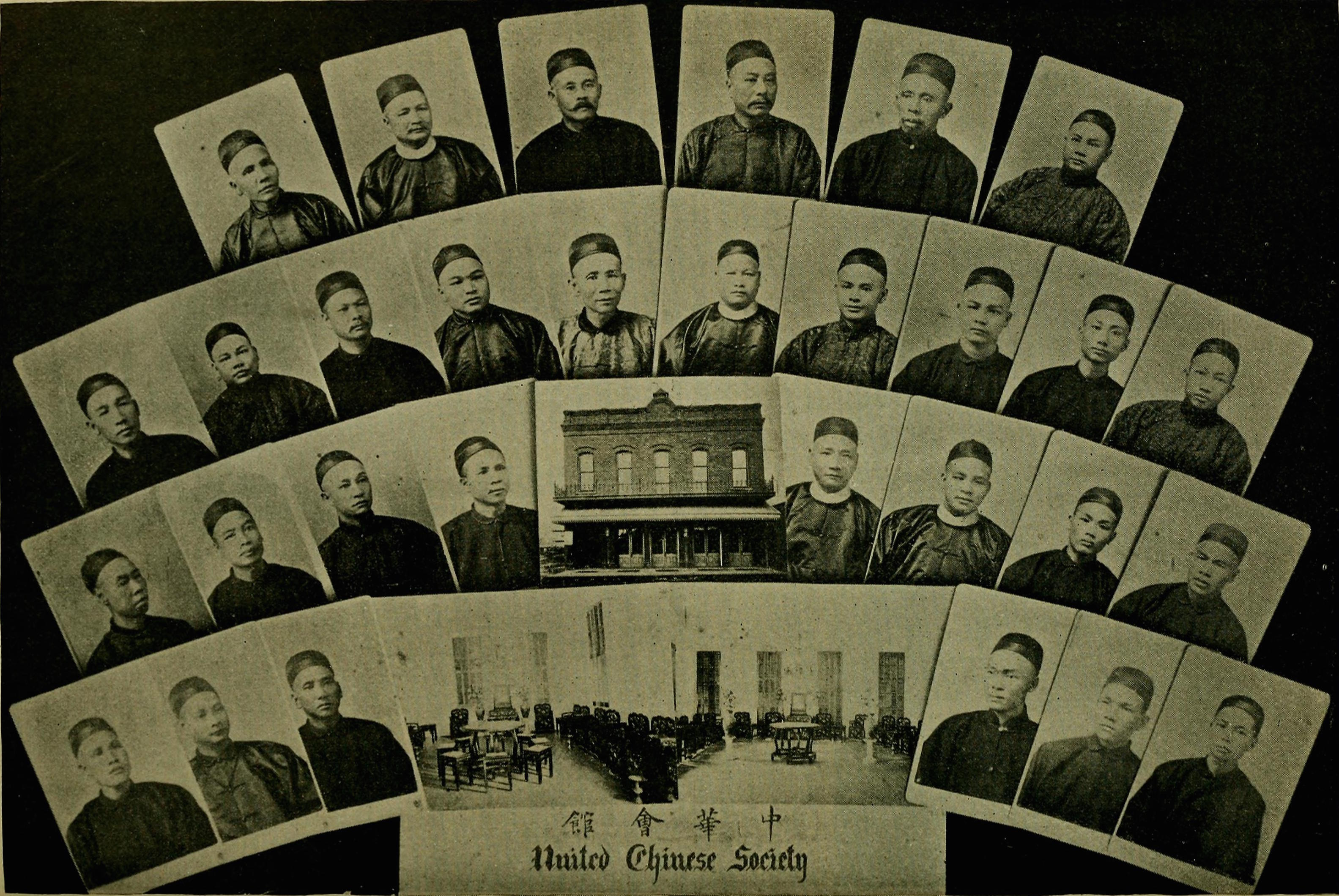 Photo of members of the United Chinese Society in Honolulu, Hawaii.